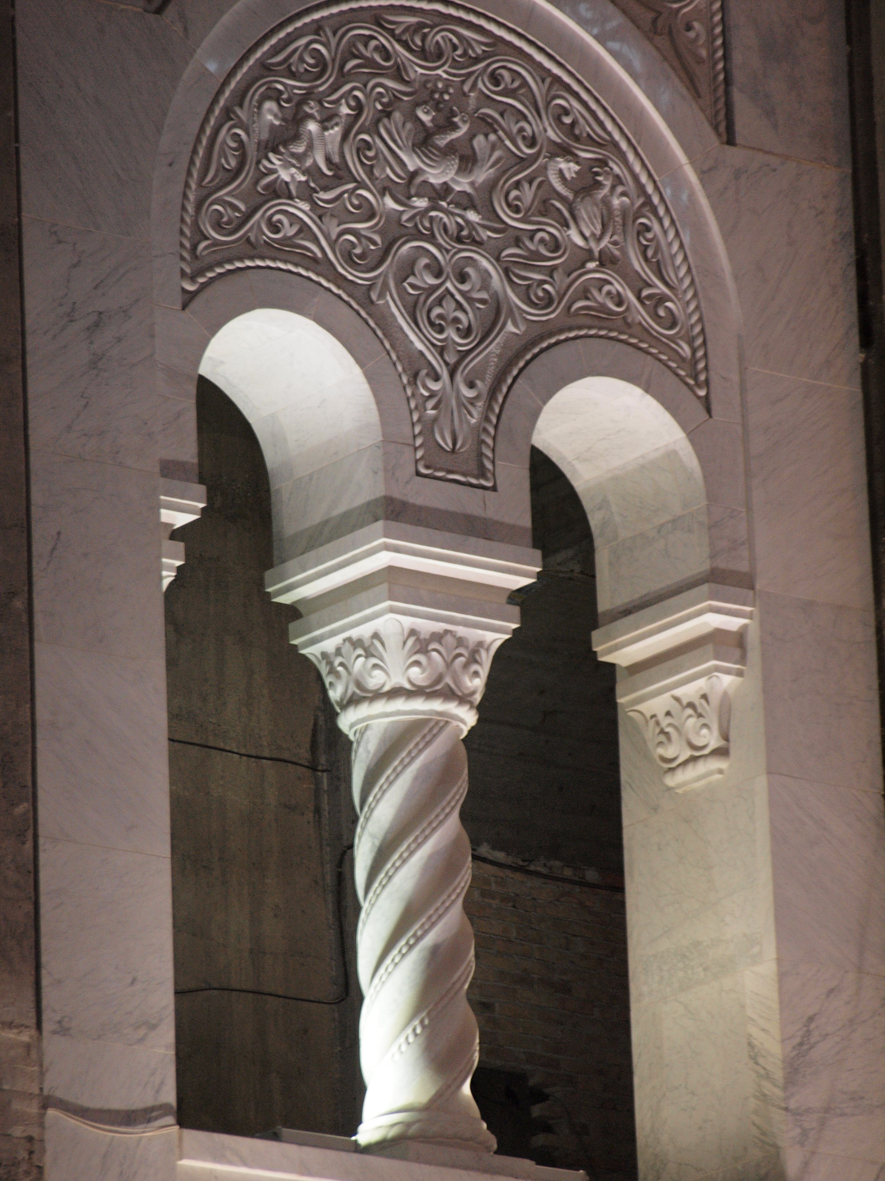 Bifor Sv. Sava